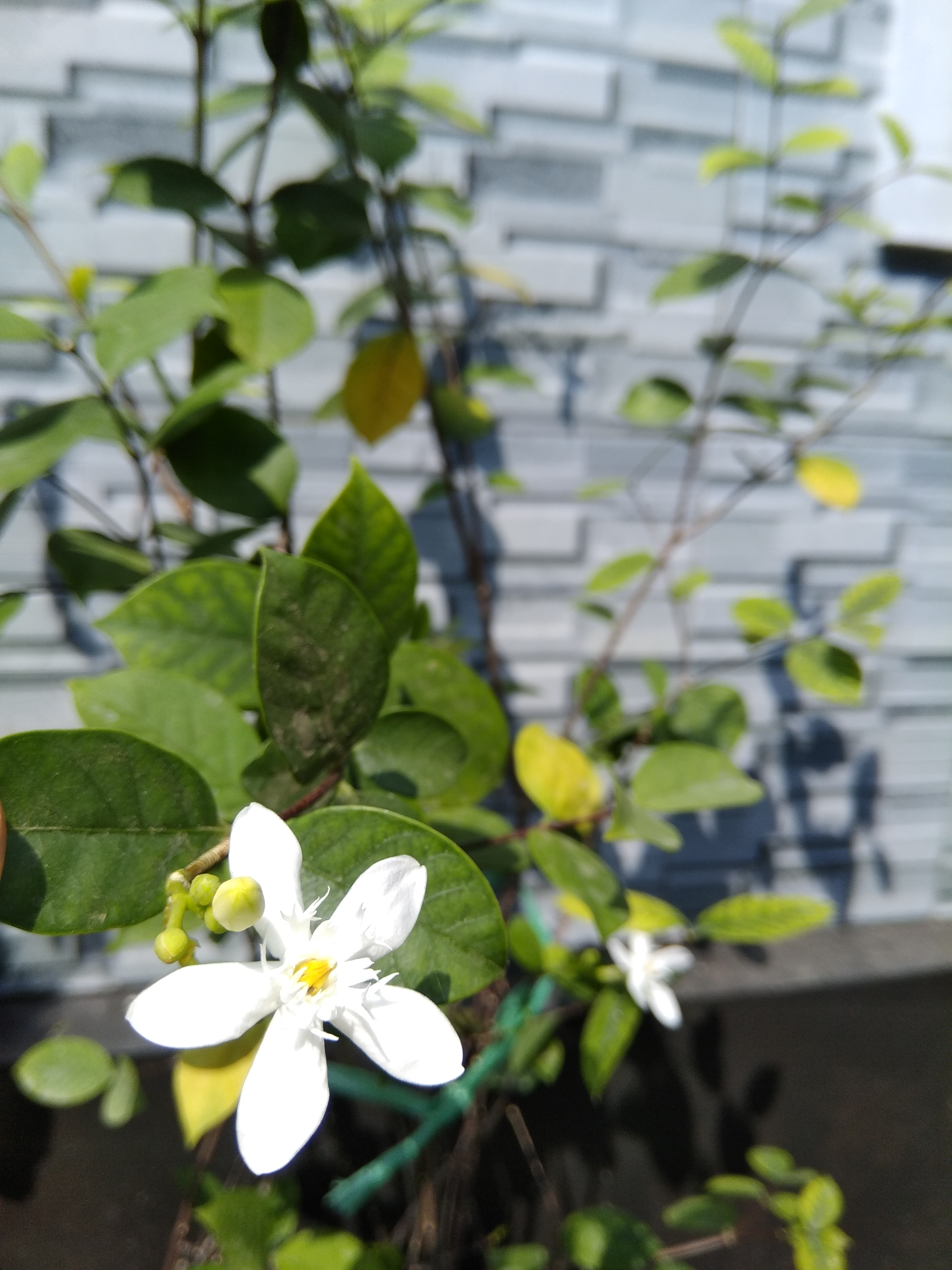 Wrightia antidysenterica